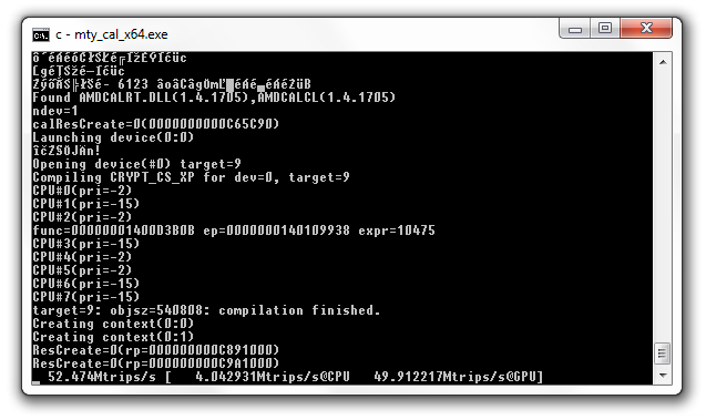 Screenshot of MTY